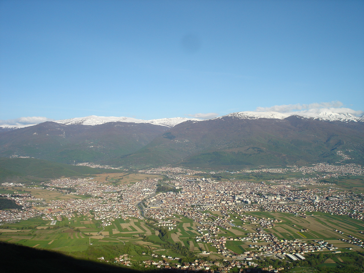 Panoramic view of the city of Gostivar from Suva Gora mountain, Macedonia